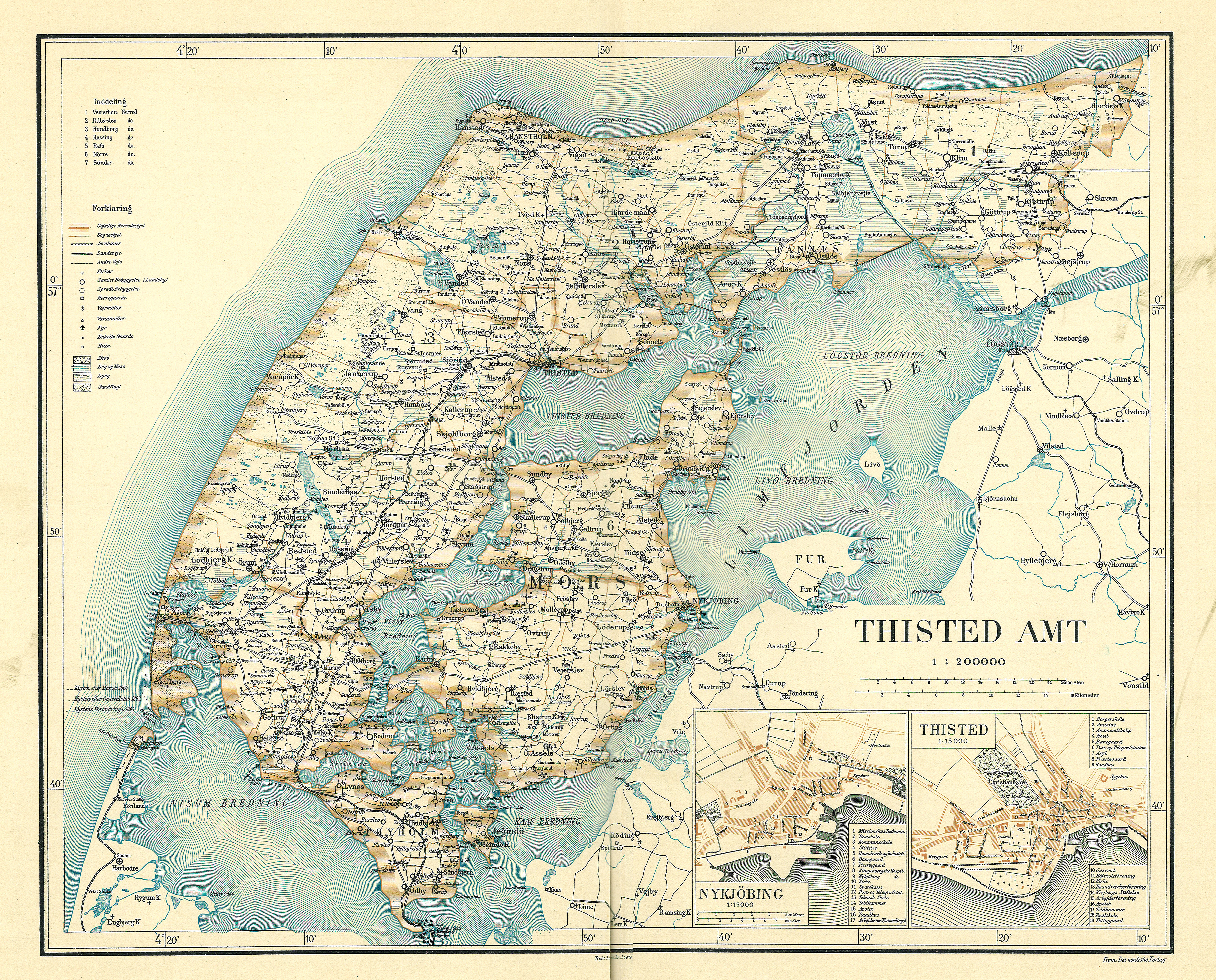 Map of Thisted County in Denmark